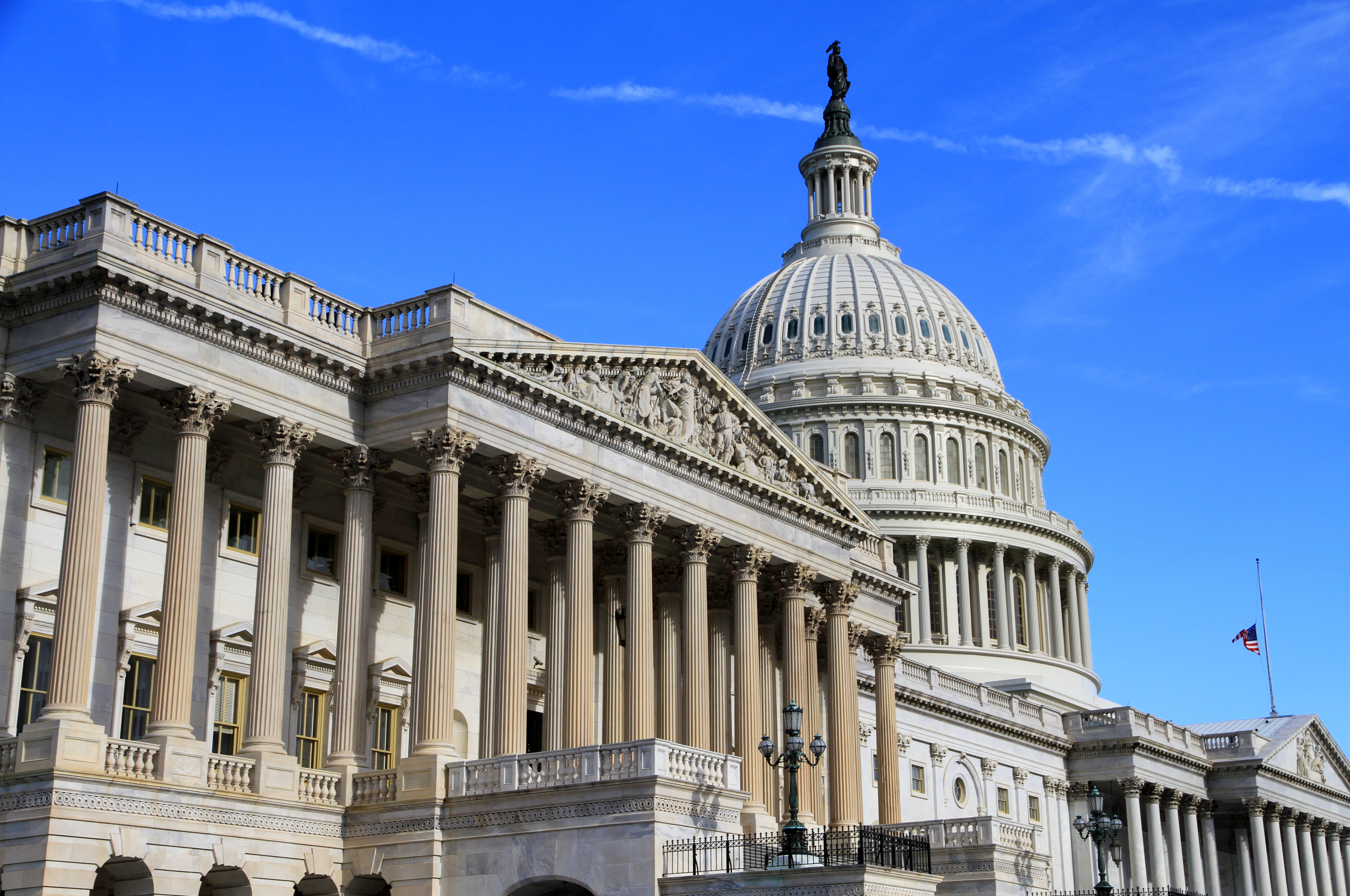 United States Capitol